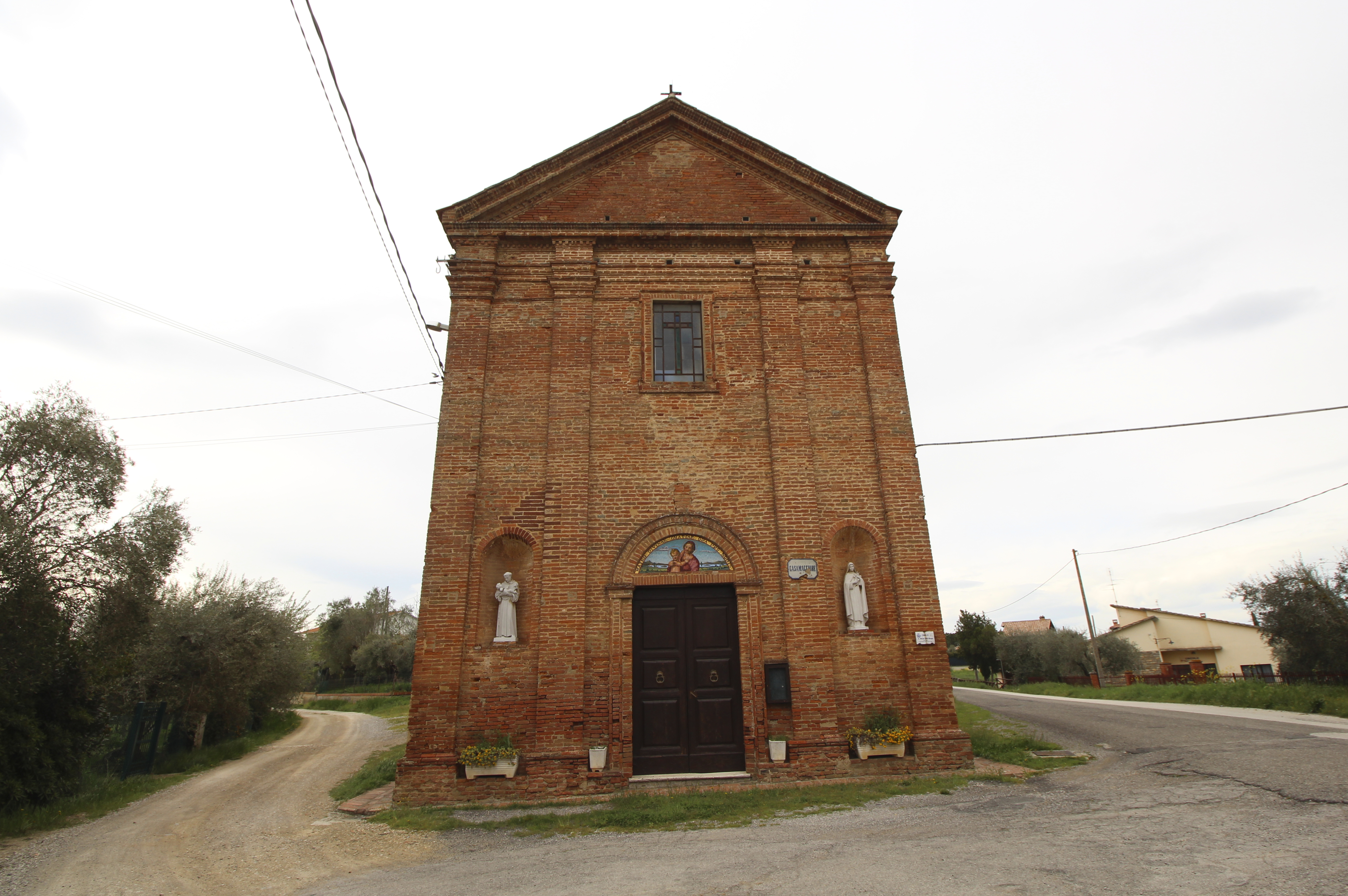 Church Santa Maria delle Grazie, Casamaggiore, hamlet of Castiglione del Lago, Province of Perugia, Umbria, Italy